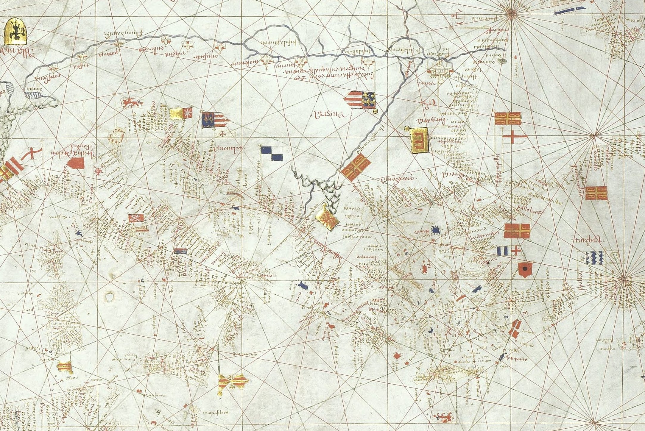 Portolan chart signed by Majorcan cartographer Guillem Soler (Guillelmus Soleri, Guglielmo Soleri) but undated (est. c.1380, but could be anywhere between 1368 and 1385), held by the Bibliothèque nationale de France in Paris, France.)